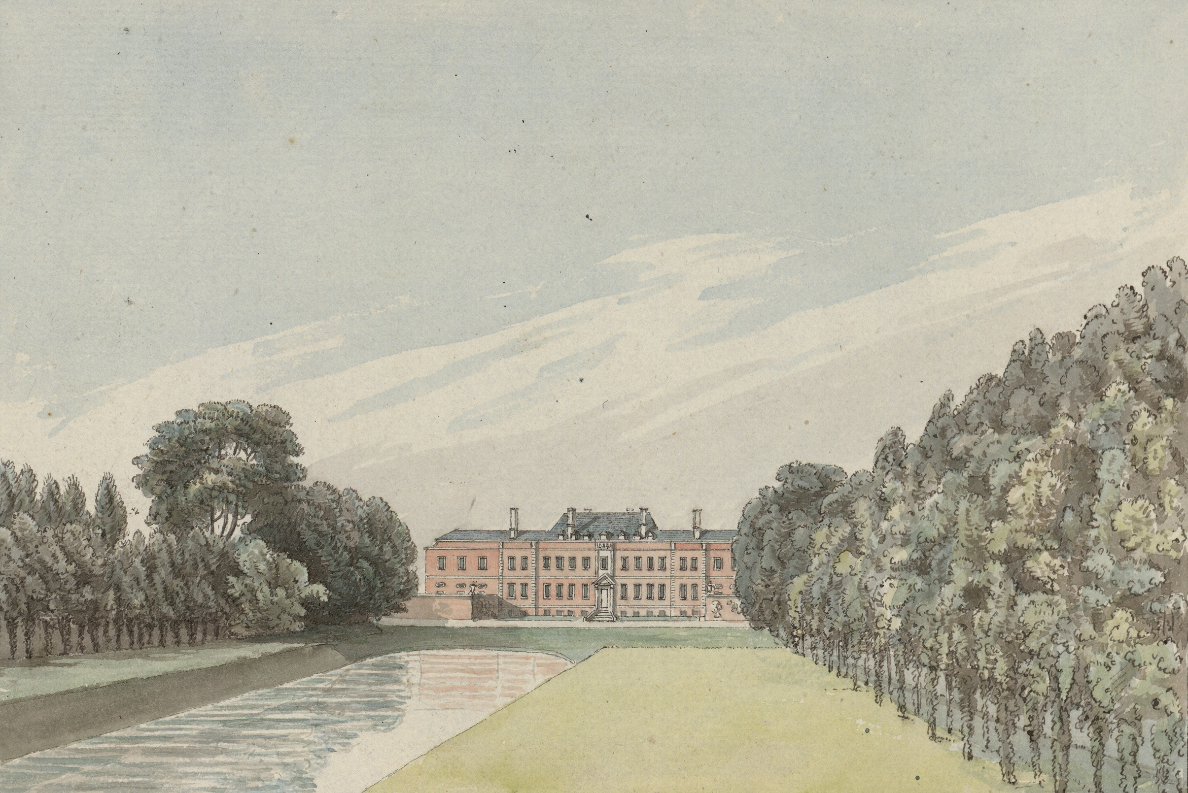 An image from a set of 8 extra-illustrated volumes of A tour in Wales by Thomas Pennant (1726-1798) that chronicle the three journeys he made through Wales between 1773 and 1776. These volumes are unique because they were compiled for Pennant's own library at Downing. This edition was produced in 1781. The volumes include a number of original drawings by Moses Griffiths, Ingleby and other well known artists of the period. Thomas Pennant (1726-1798)